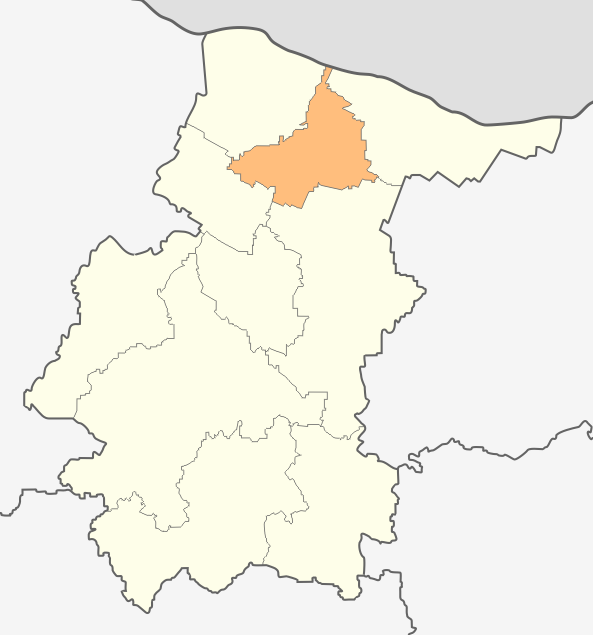 Map of Mizia municipality, Vratsa Province